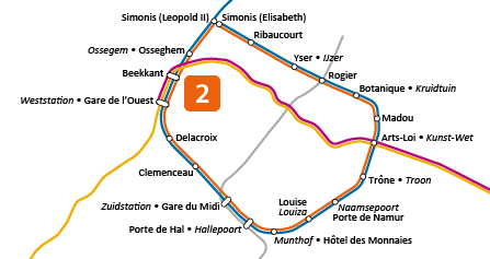 Itinerary map of Brussels metro line 2